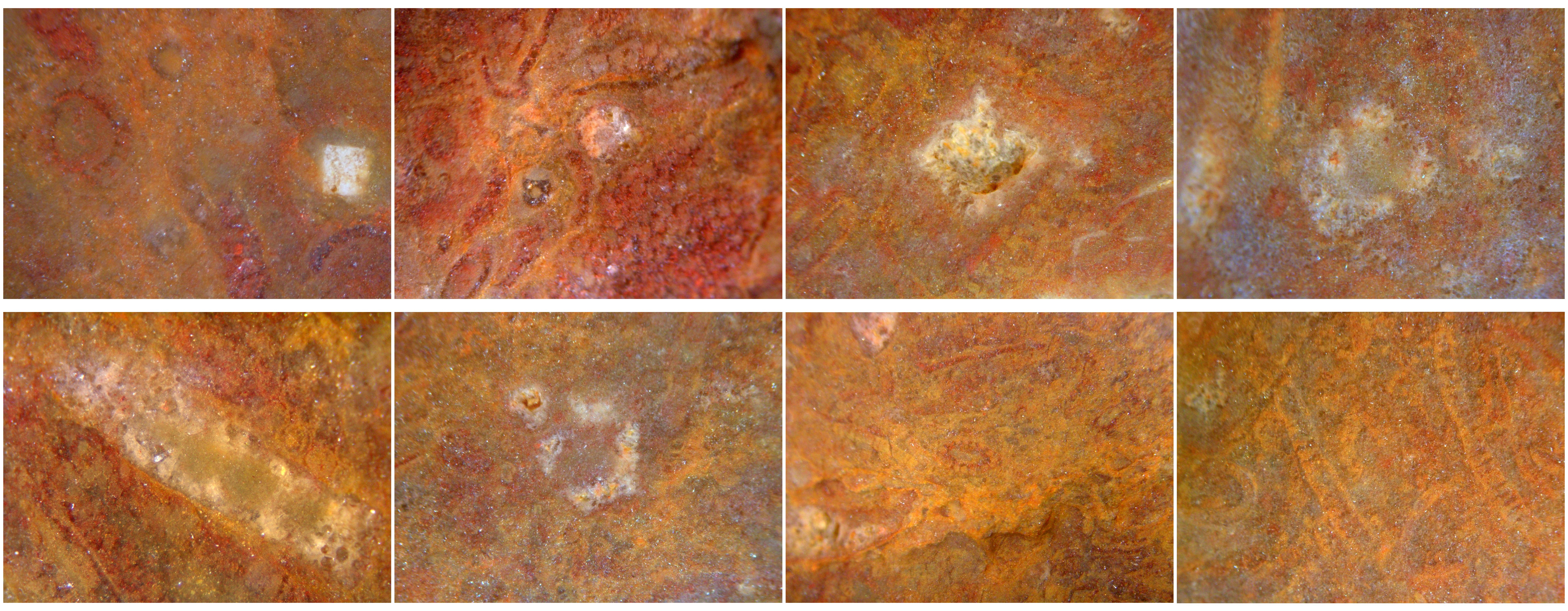 Various imprints left by halite crystals. This type of images is characteristic of this type of environment.